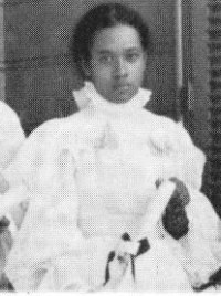 Lydia Kaʻonohiponiponiokalani Aholo (February 6, 1878 – July 7, 1979) was the hānai daughter of Queen Liliʻuokalani. Picture from a group photograph of the first Graduating Class of the Kamehameha School for Girls in 1897.